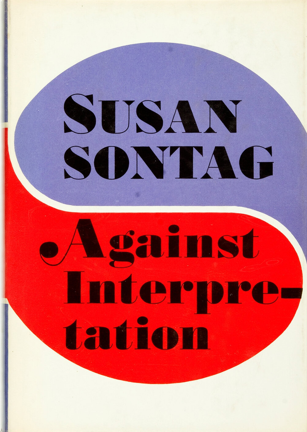 First-edition dust jacket cover of Against Interpretation (1966) by Susan Sontag.